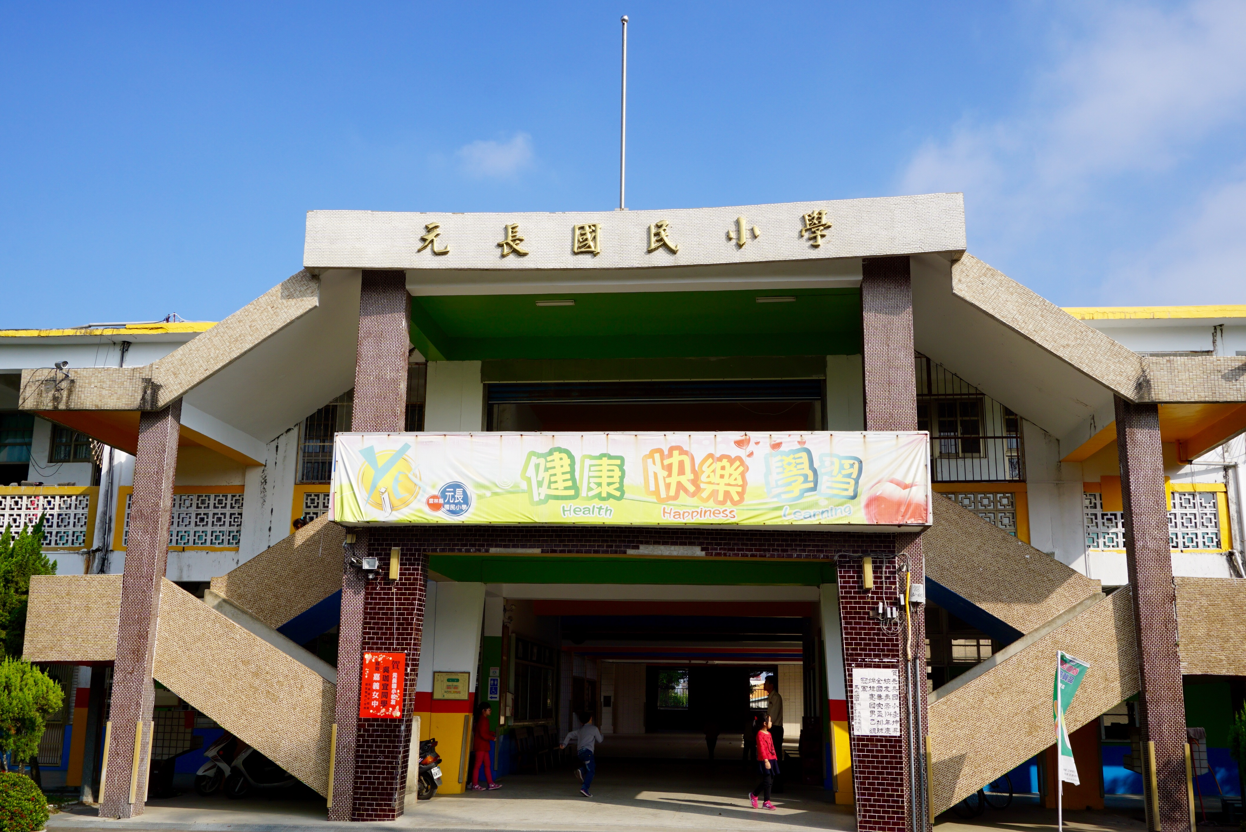 Yuanzhang Elementary School in Yunlin, Taiwan. 中文（台灣）: 雲林縣元長鄉元長國民小學（元長國小）。